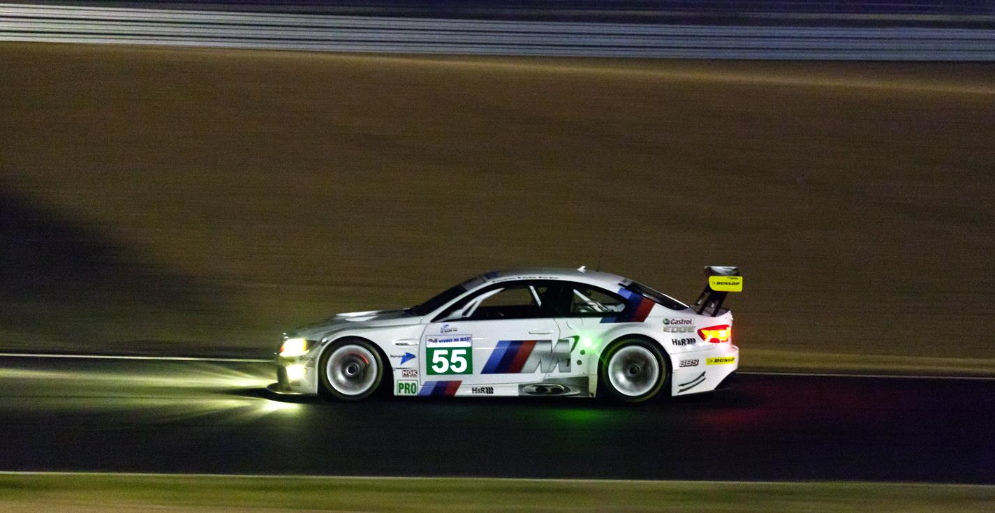 Le Mans 2011 - Qualifying 3 - BMW M3 #55 (GTE-Pro)